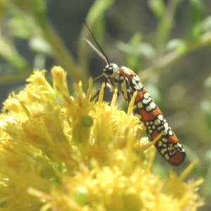 Atteva punctella (Ailanthus webworm) New accepted name Atteva aurea